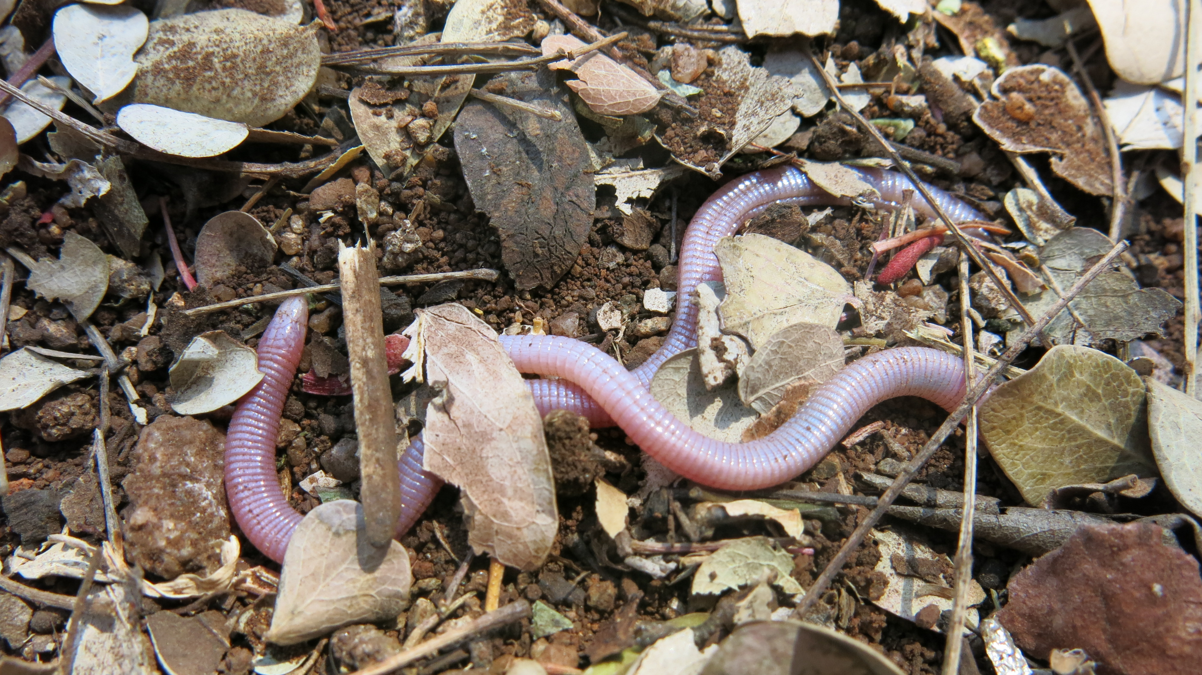 Endemic to the Soutpansberg, the Soutpansberg Wormlizard (Chirindia langi subsp. occidentalis). photographed in the Sand River Gorge, Medike Mountain Sanctuary, Soutpansberg, South Africa.